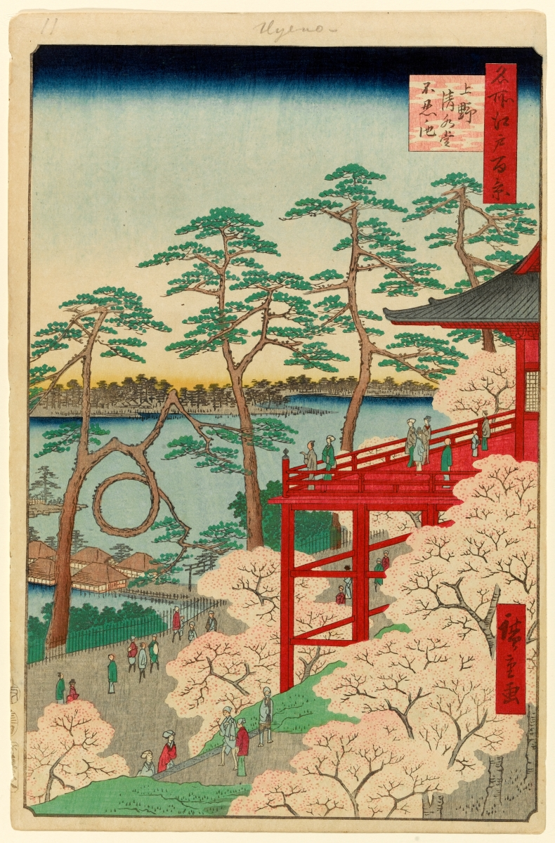 Part of the series One Hundred Famous Views of Edo, no. 011, part 1: Spring.